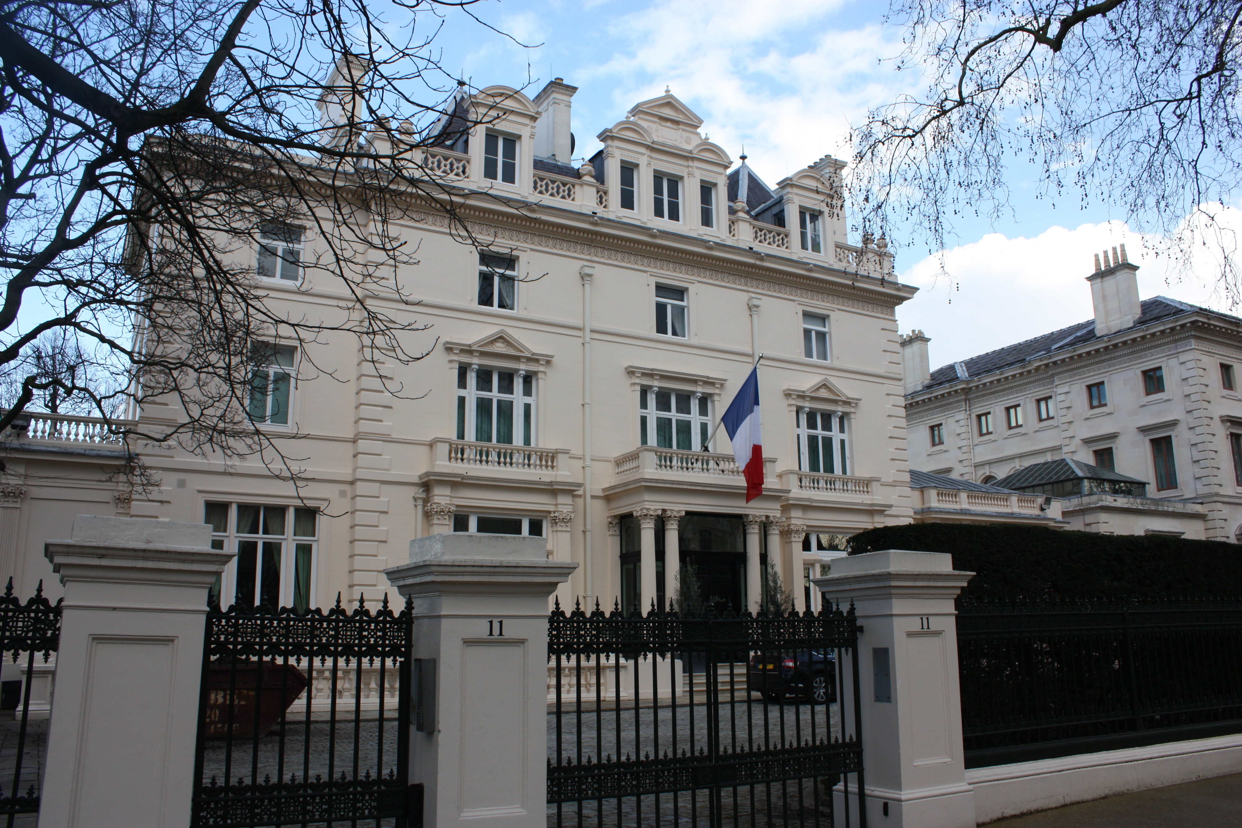 French Embassy in London - residenece in Kensington Palace Gardens